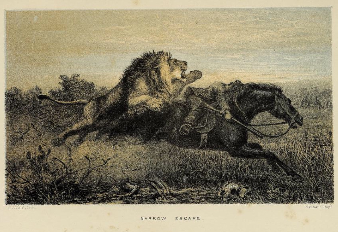 Plate from William Charles Baldwin's African hunting, 1863.